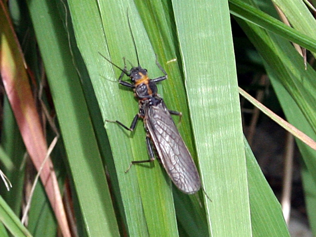 This is NOT Dinocras cephalotes (Curtis, 1827), but rather some Perlodes sp. (as noted by Jürgel Gaul here)